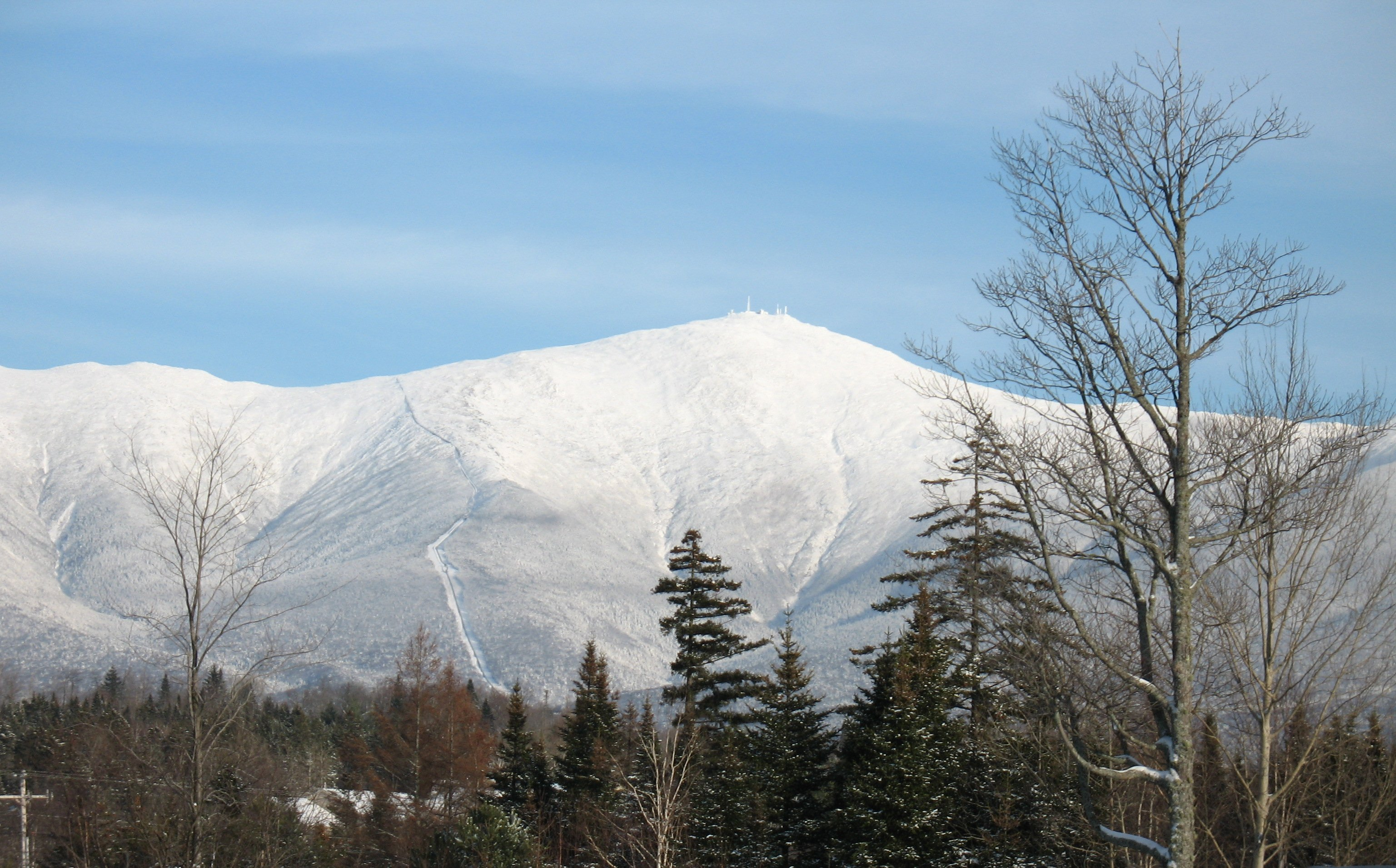 Mount Washington, seen from Bretton Woods, i.e. from the west side. The cog railway track is visible, running up the spur to the left of the summit.